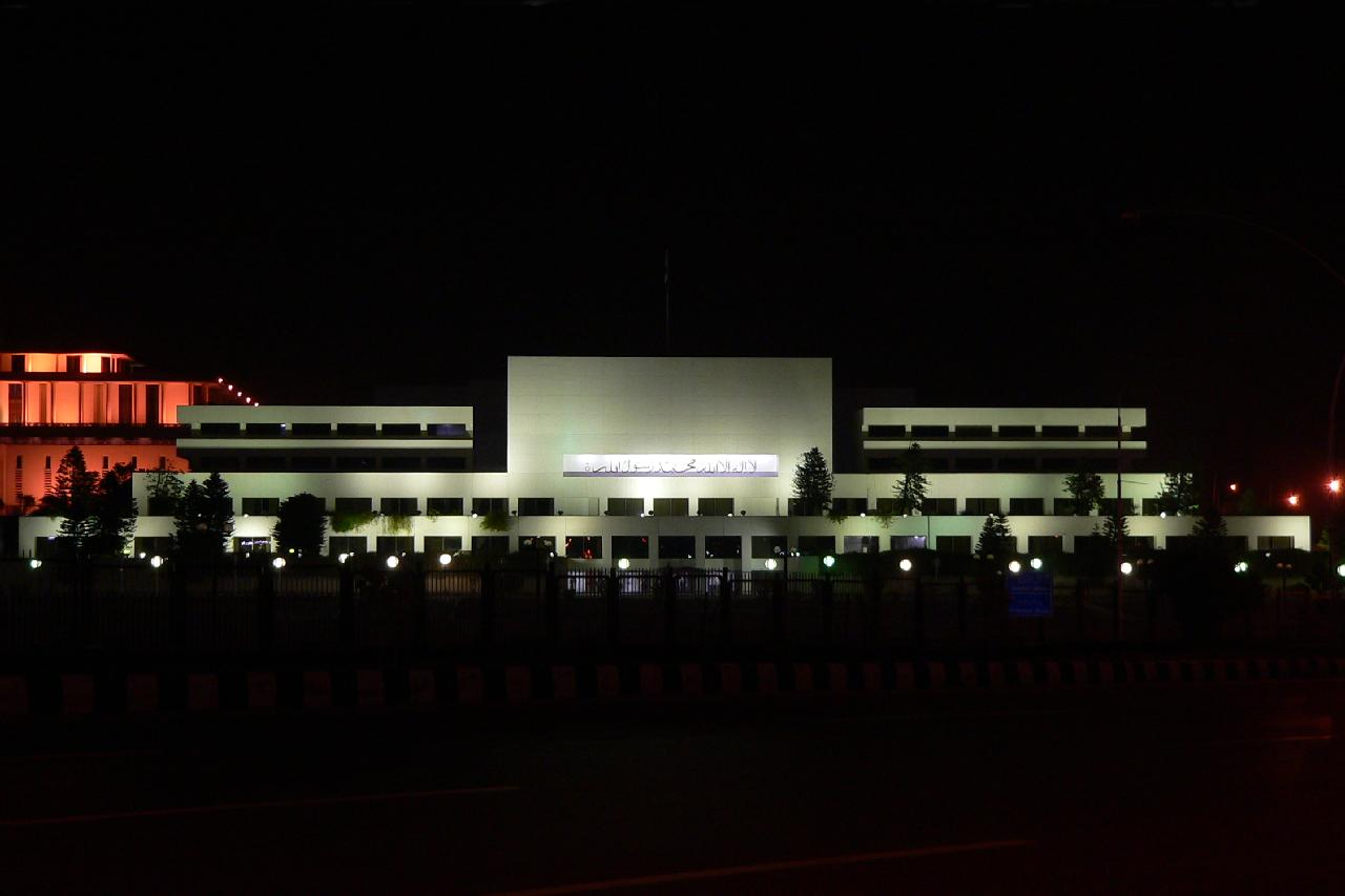 Summary A Night Shot of the Parliament House, Islamabad. Image by Waqas Usman More images at Category:Pakistan-related_images